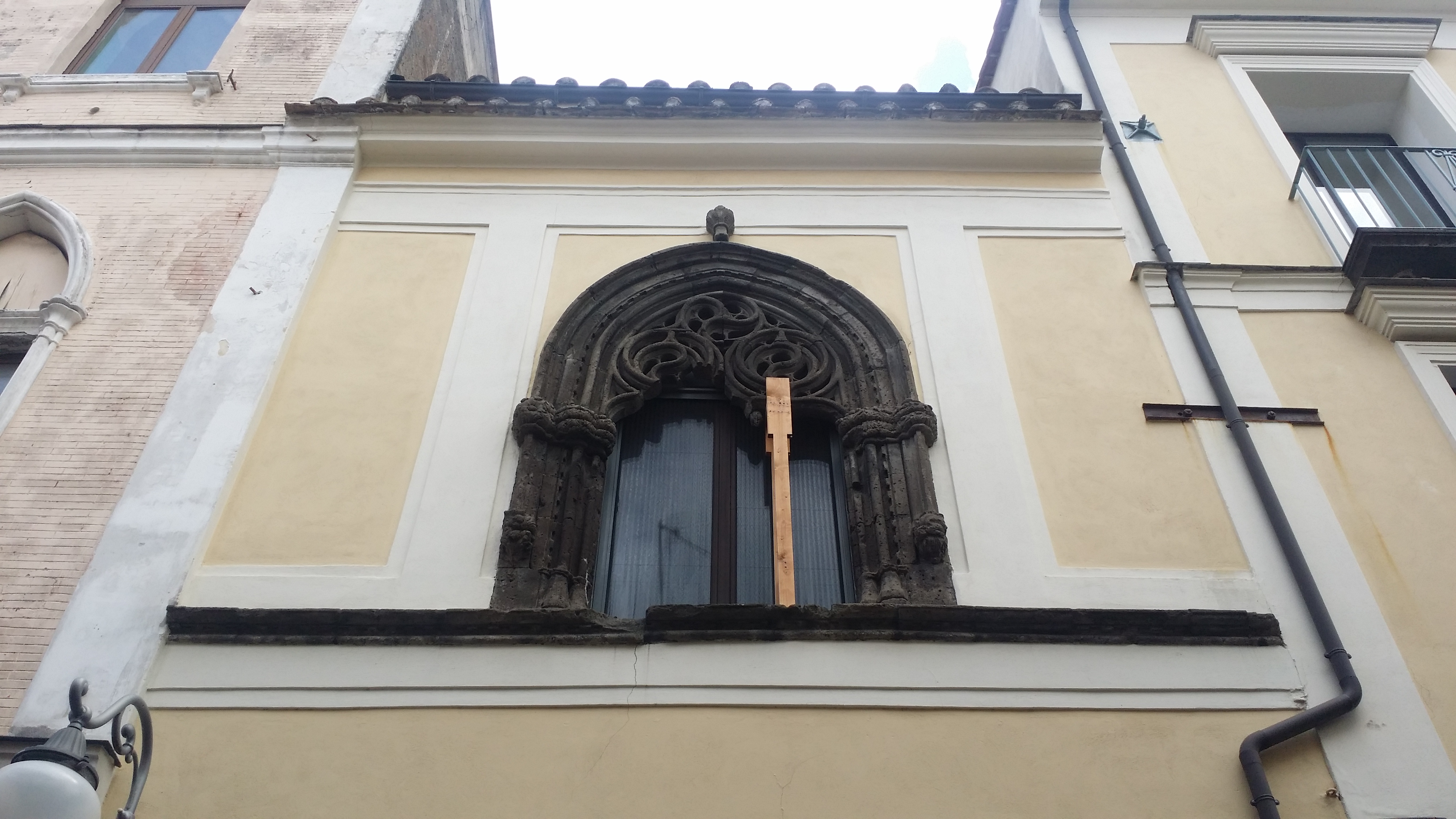 15th century Catalan mullioned window on an ancient noble palace in Angri